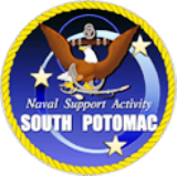 U.S. Navy Indian Head Naval Surface Warfare Center logo